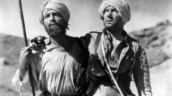 Promotional photograph of John Clements and Ralph Richardson in the 1939 film, The Four Feathers